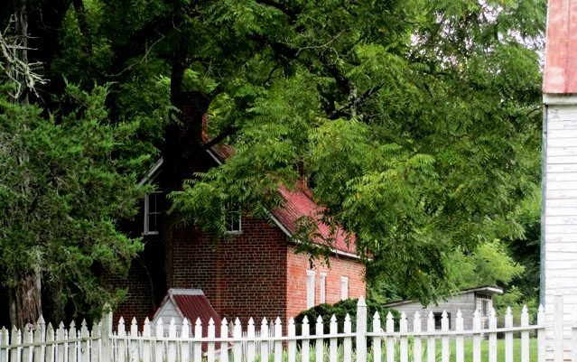 Brick Kitchen, Circa 1800